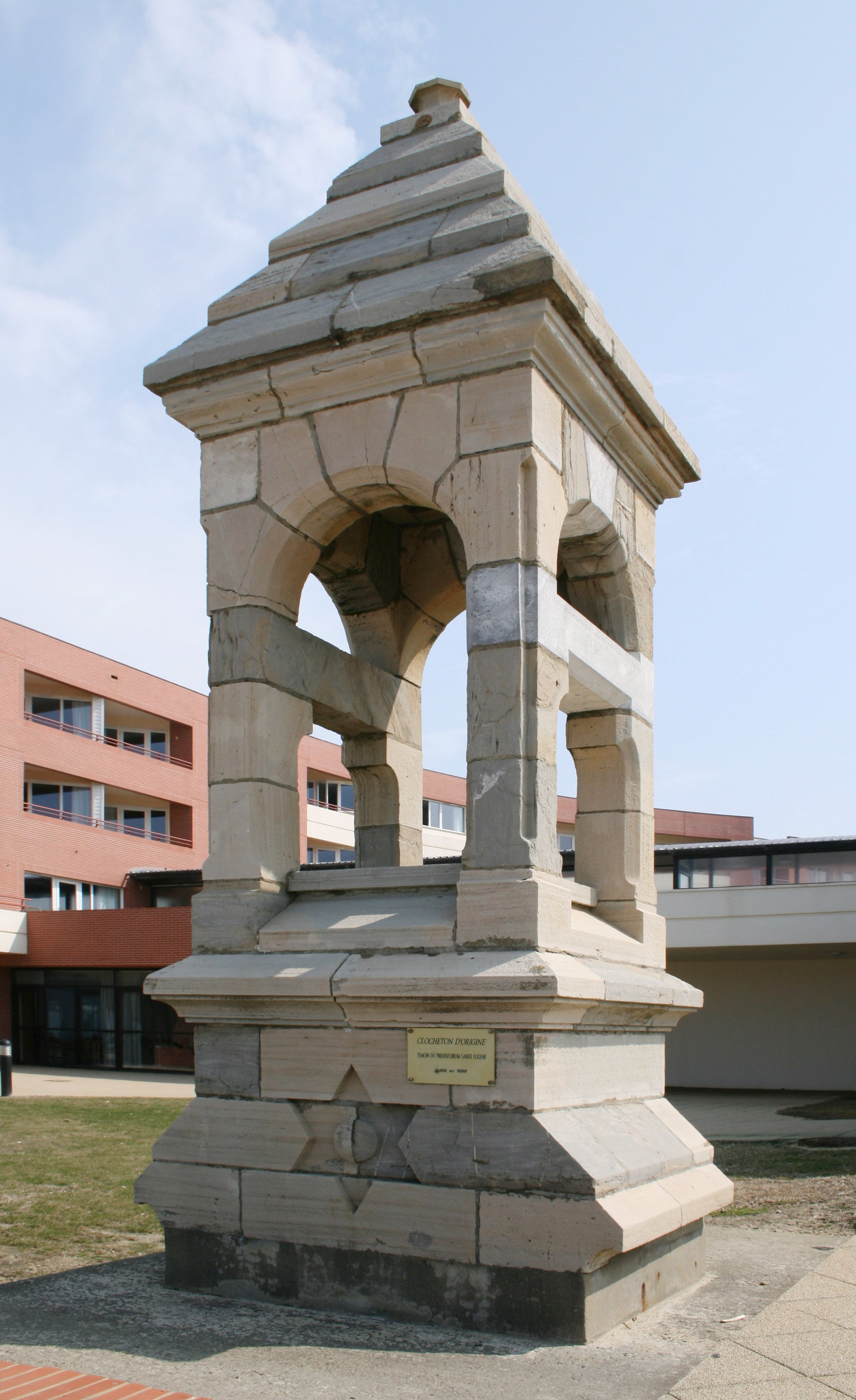 A bell tower of the old Saint Eugenie Sanatorium in Capbreton, Landes, Aquitaine, France.